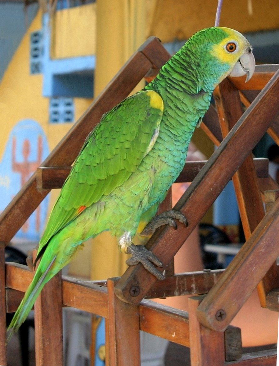 Yellow-shouldered Amazon (Amazona barbadensis) also known as Yellow-shouldered Parrot. Pet in Venezuela on a wooden climbing frame.